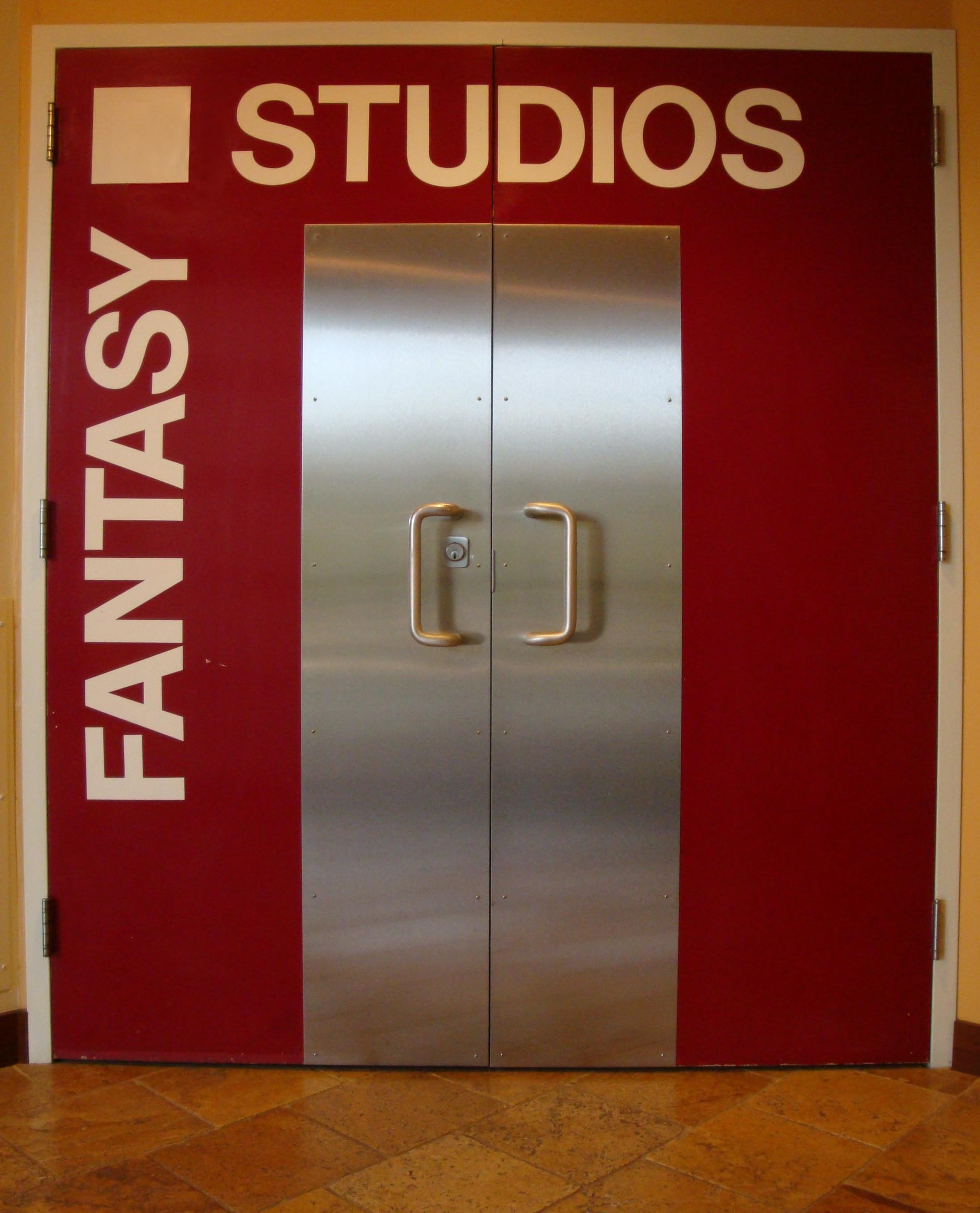 Fantasy Studio's historic entrance doors